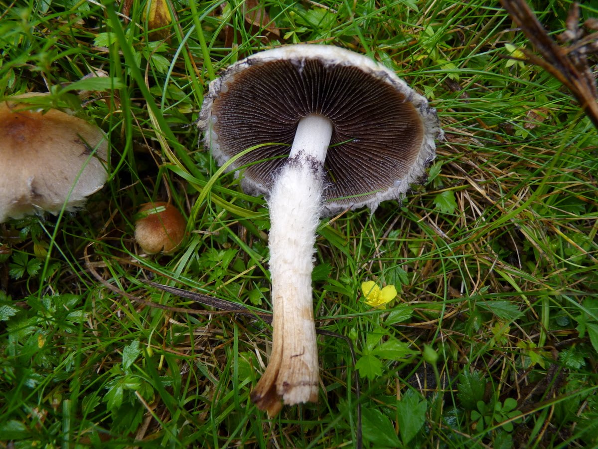 Stem of weeping Mary fungi